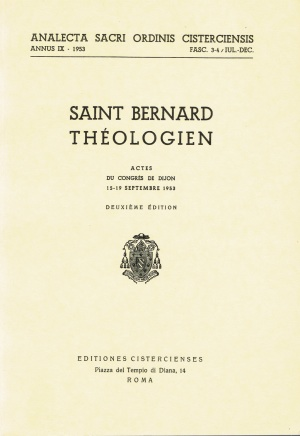 See Analecta Cisterciensia article in the German Wiki. This is an issue from 1953, the commemorative year of St. Bernard's death.